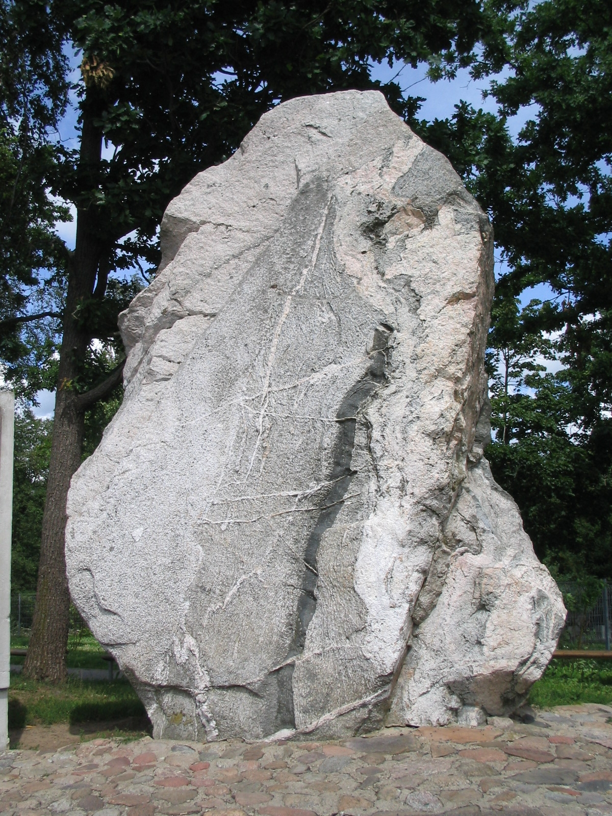 Rauško akmuo, stone at Prienai, Šilalė district.